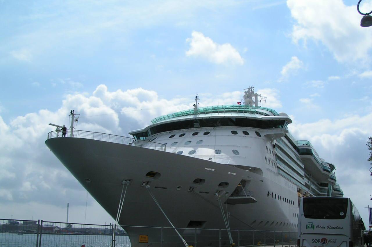 Jewel of the seas i Köpenhamn